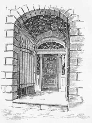 An artist's rendition of the entryway to the LaLaurie Mansion at 1140 Royal Street, New Orleans, circa 1888. It is in the public domain and is intended for use in illustrating the article Delphine LaLaurie.